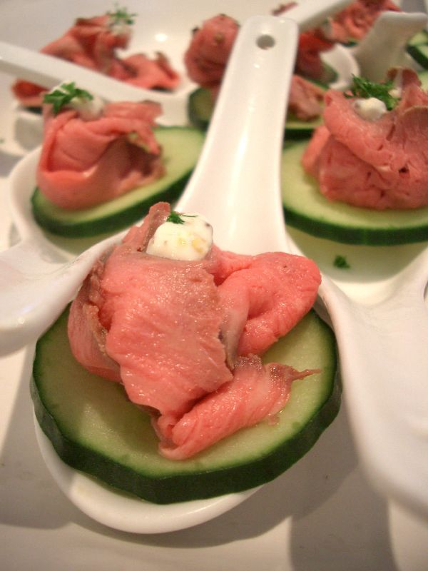 Roast Beef Canapes at the CML IT Event.